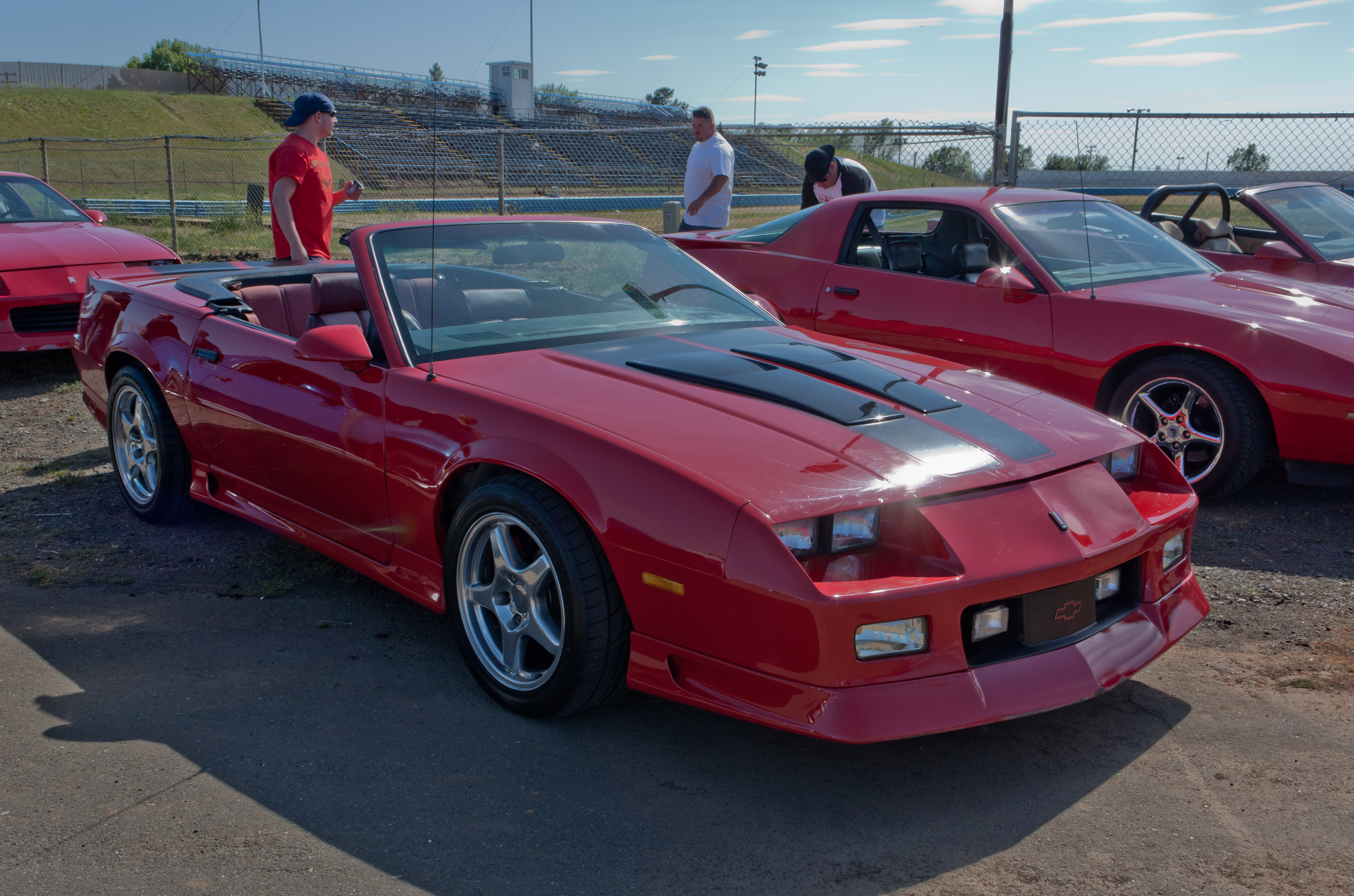 ThirdGen Norcal GTG